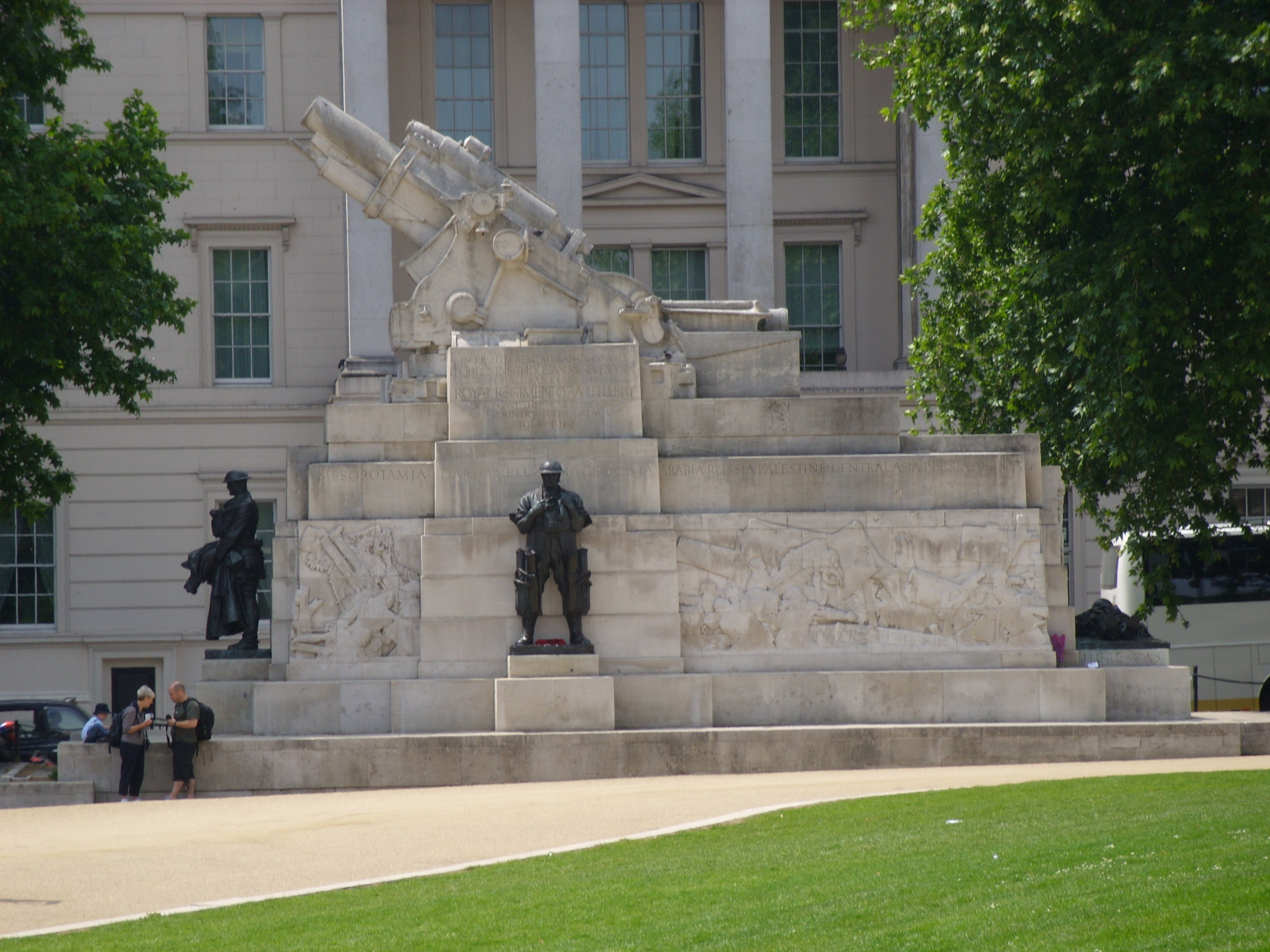 The Royal Artillery Memorial, London. It depicts a BL 9.2 inch Howitzer Mk I of World War I.